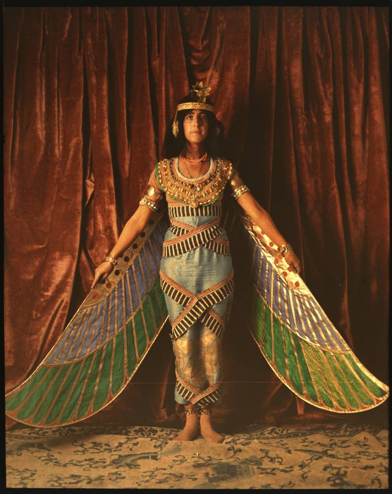 Dancer wearing Egyptian-look costume with wings reaching to the floor